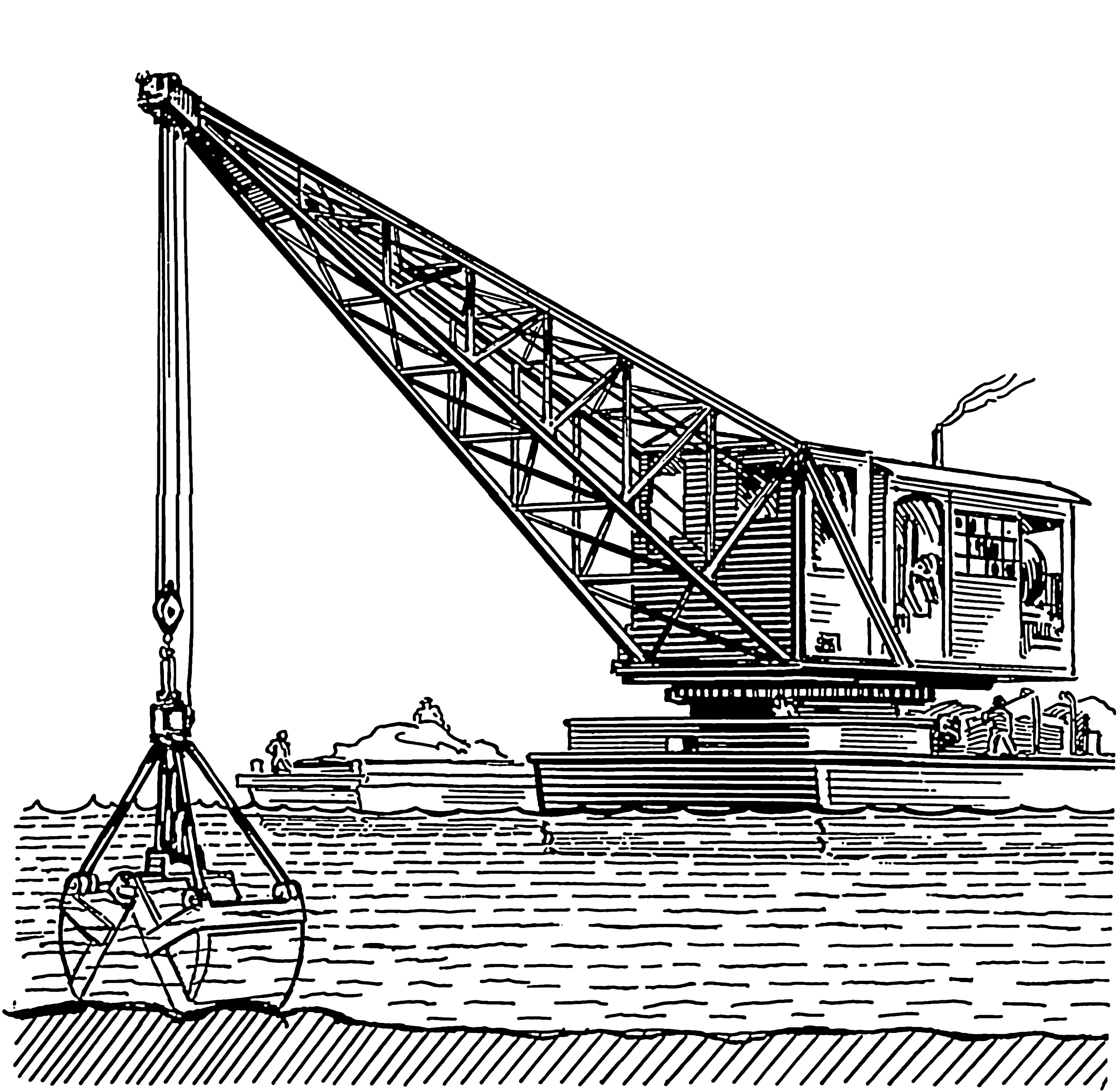 Line art drawing of a dredge.